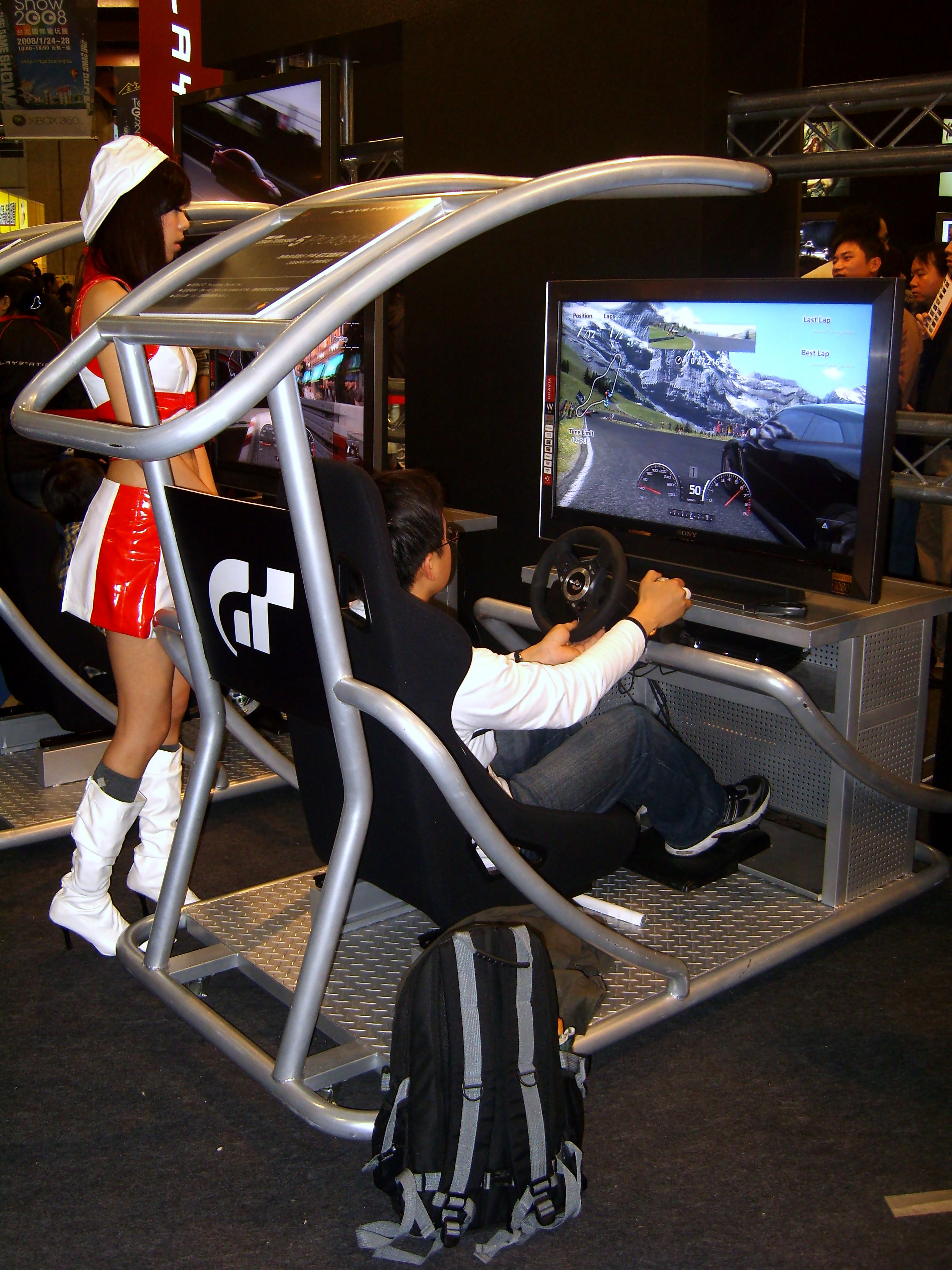 2008 Taipei Game Show: Gran Turismo 5 Gaming Area by Sony Computer Entertainment Taiwan Limited.